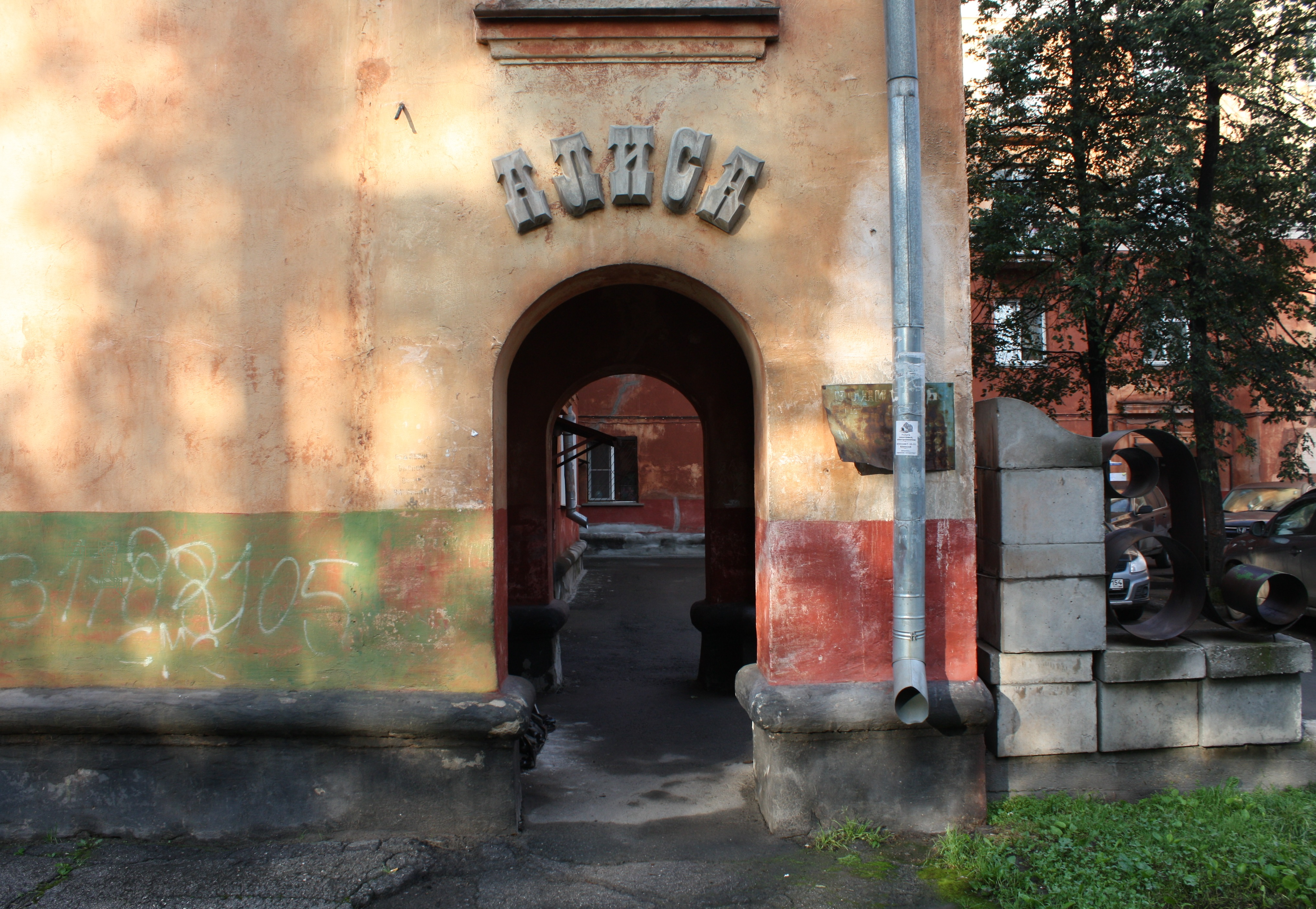 Alisa Yard, Kalininsky City District, Novosibirsk.